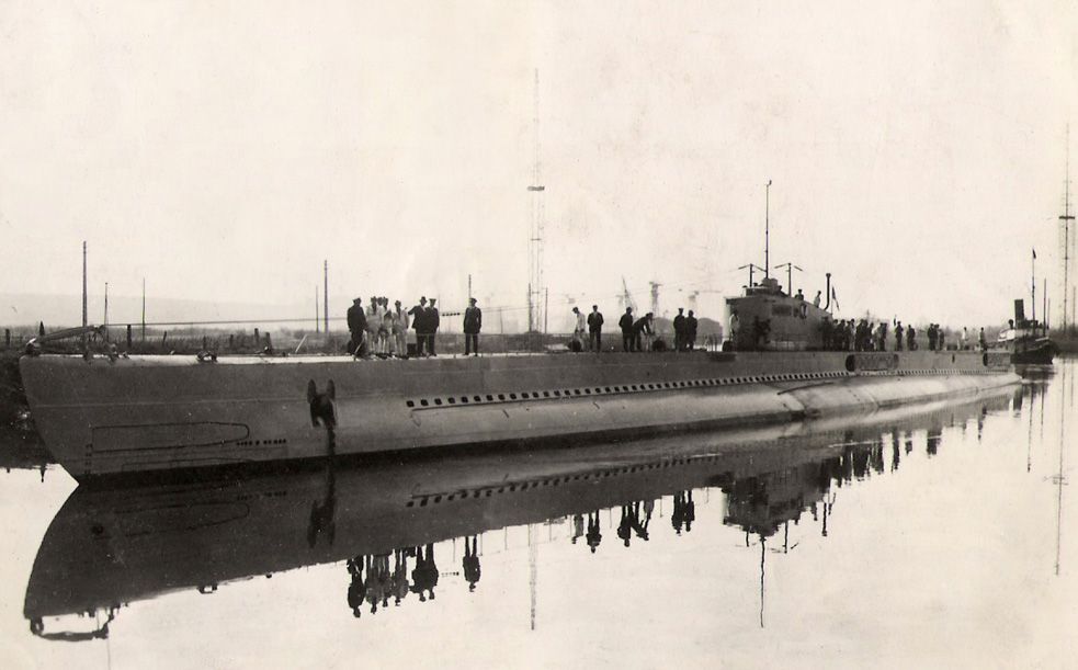 French Submarine Prométhée, sunk near Cherbourg, July 7th, 1932.